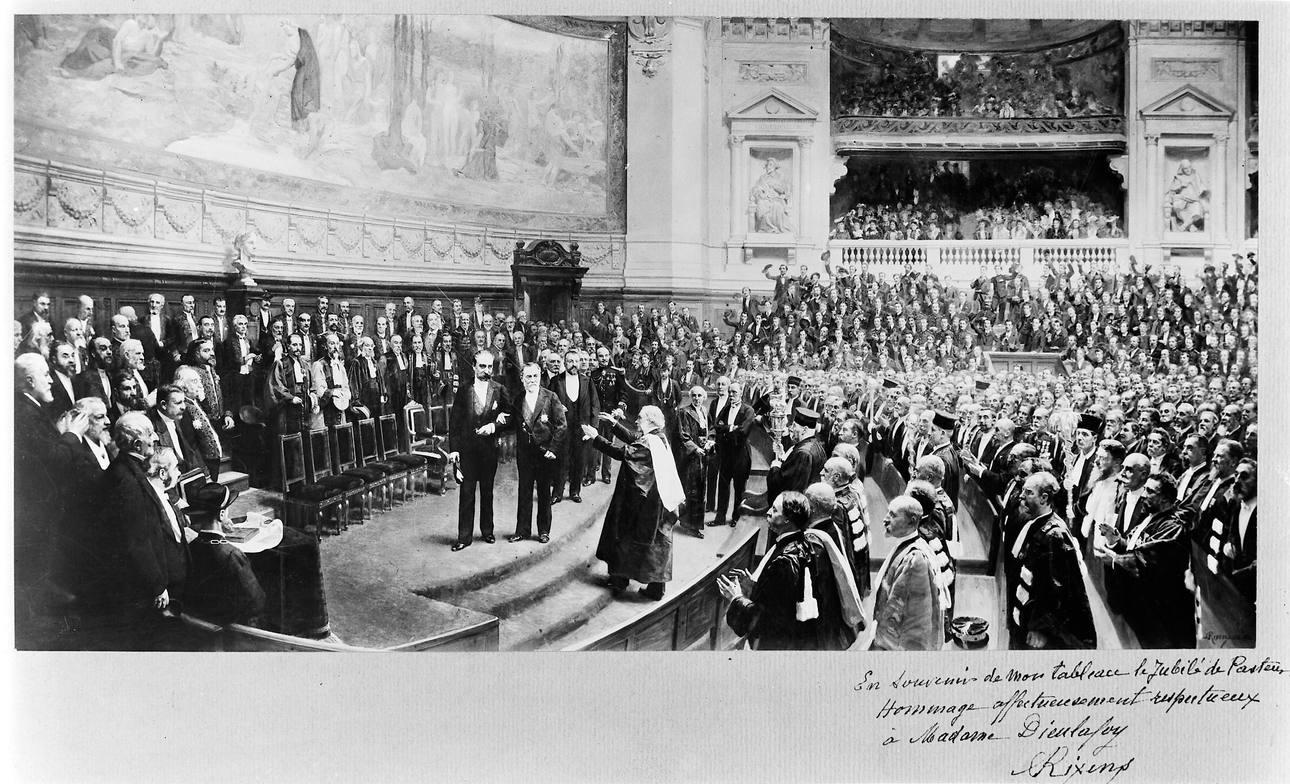 Joseph Lister, Baron Lister acclaims Louis Pasteur at Pasteur's Jubilee, Paris, 1892. Photograph after a painting by Jean-André Rixens. Iconographic Collections